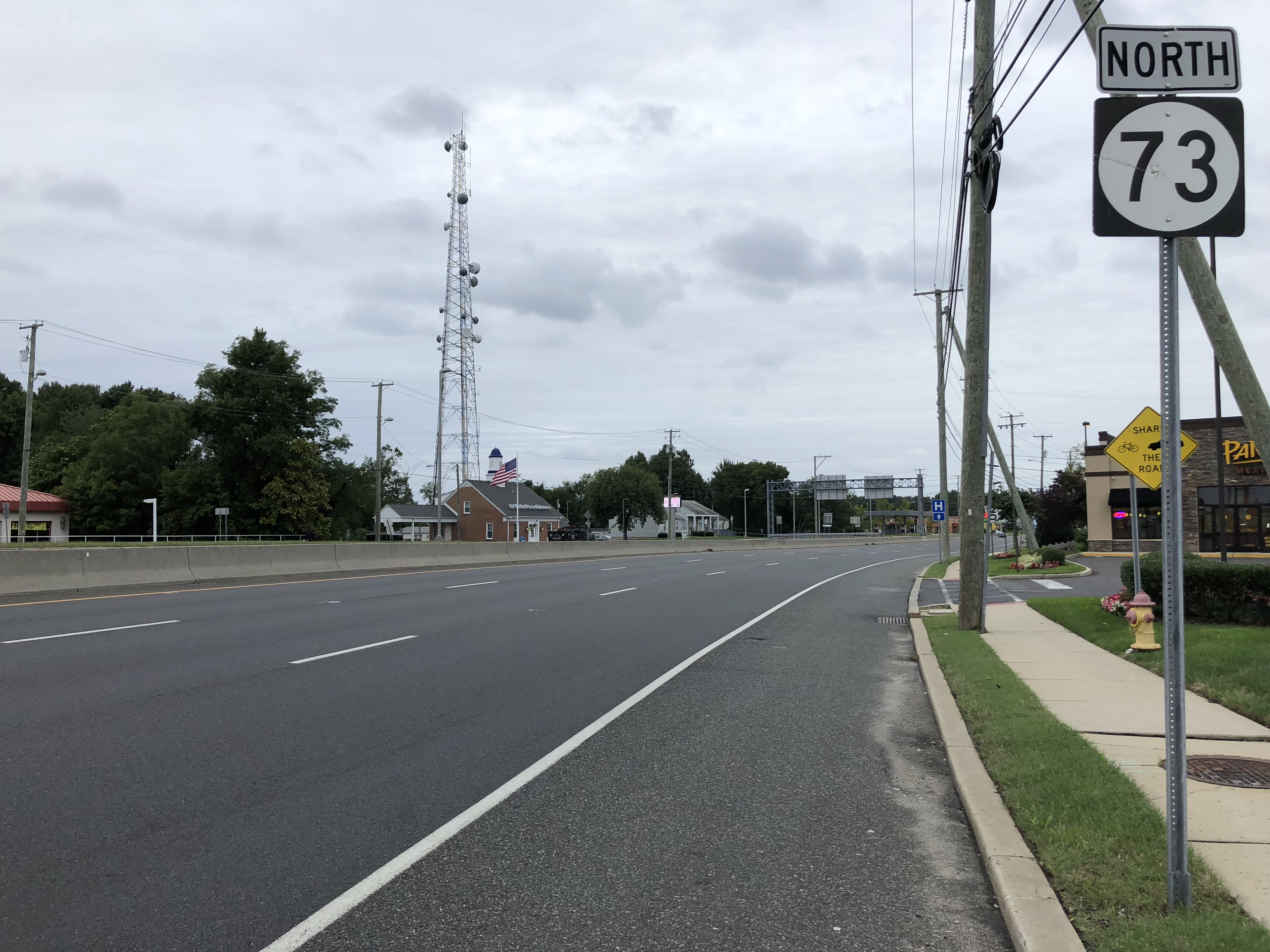 View north along New Jersey State Route 73 just north of Camden County Route 708 (Walker Avenue) in Berlin Township, Camden County, New Jersey